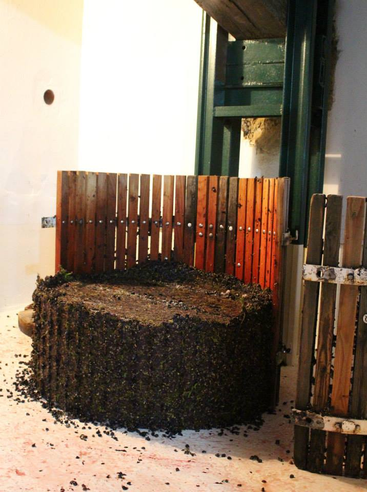 Wine-making at the winery Kerschbaumer in Austria The press cake: It is the residue after the grapes are pressed. It serves as excellent filter during the pressing process. The grape juice therefore can flow off very clearly.